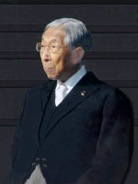 新年一般参賀における、三笠宮崇仁親王(Prince Takahito)